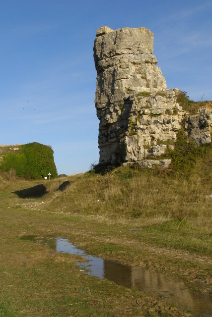 Nicodemus Knob, Isle of Portland. This stack of rock really is called Nicodemus Knob. It was left behind when the rest of the area was quarried to provide building material for the nearby Verne citadel and the Portland breakwater. Its size gives an indication of how much Portland Stone was quarried away. Another famous Dorset knob (along with the biscuits and the Cerne Abbas giant)?